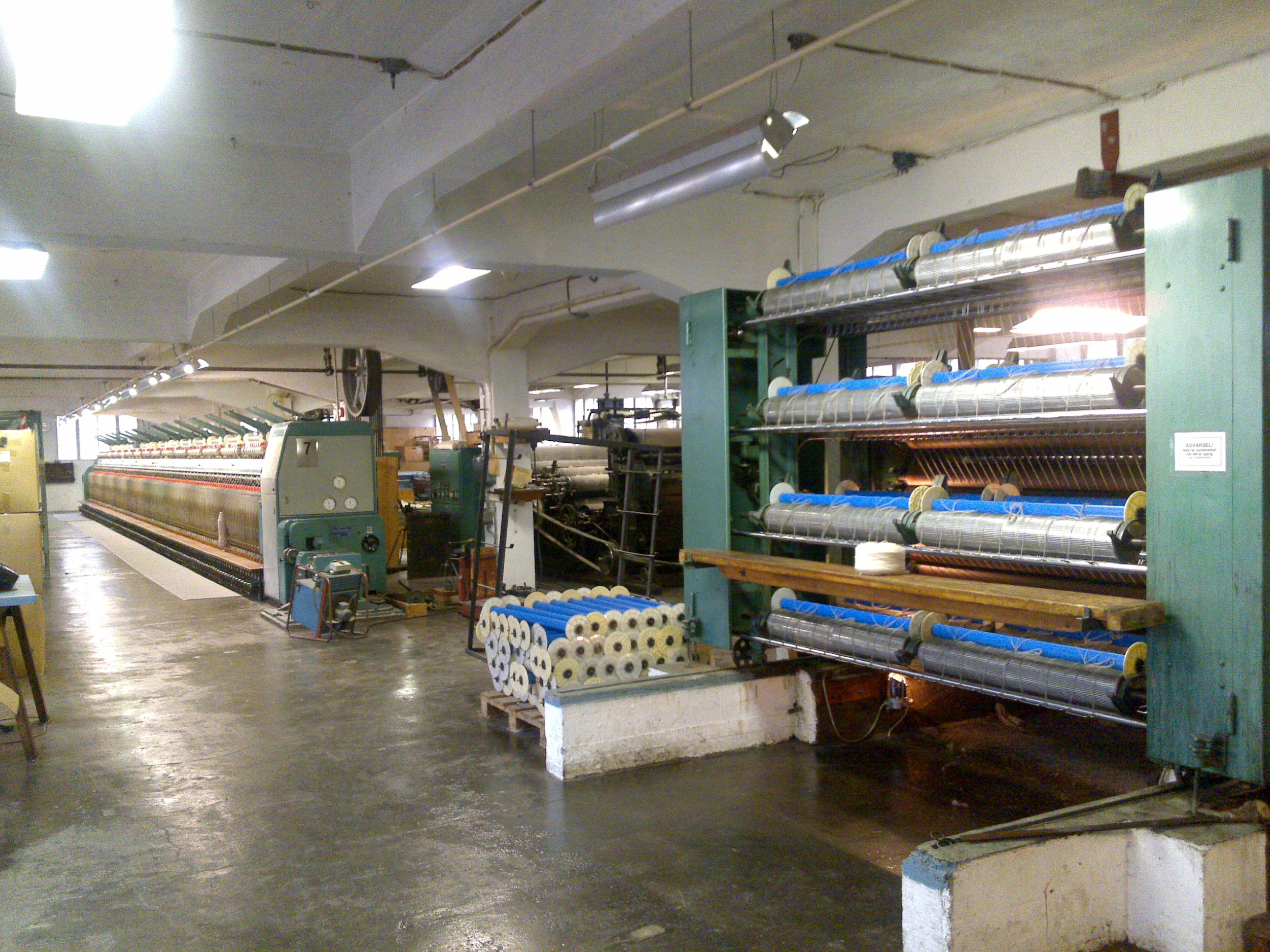 Spinning facility at Sjölingstad Uldvarefabrik (Woolen factory), Mandal (Norway)